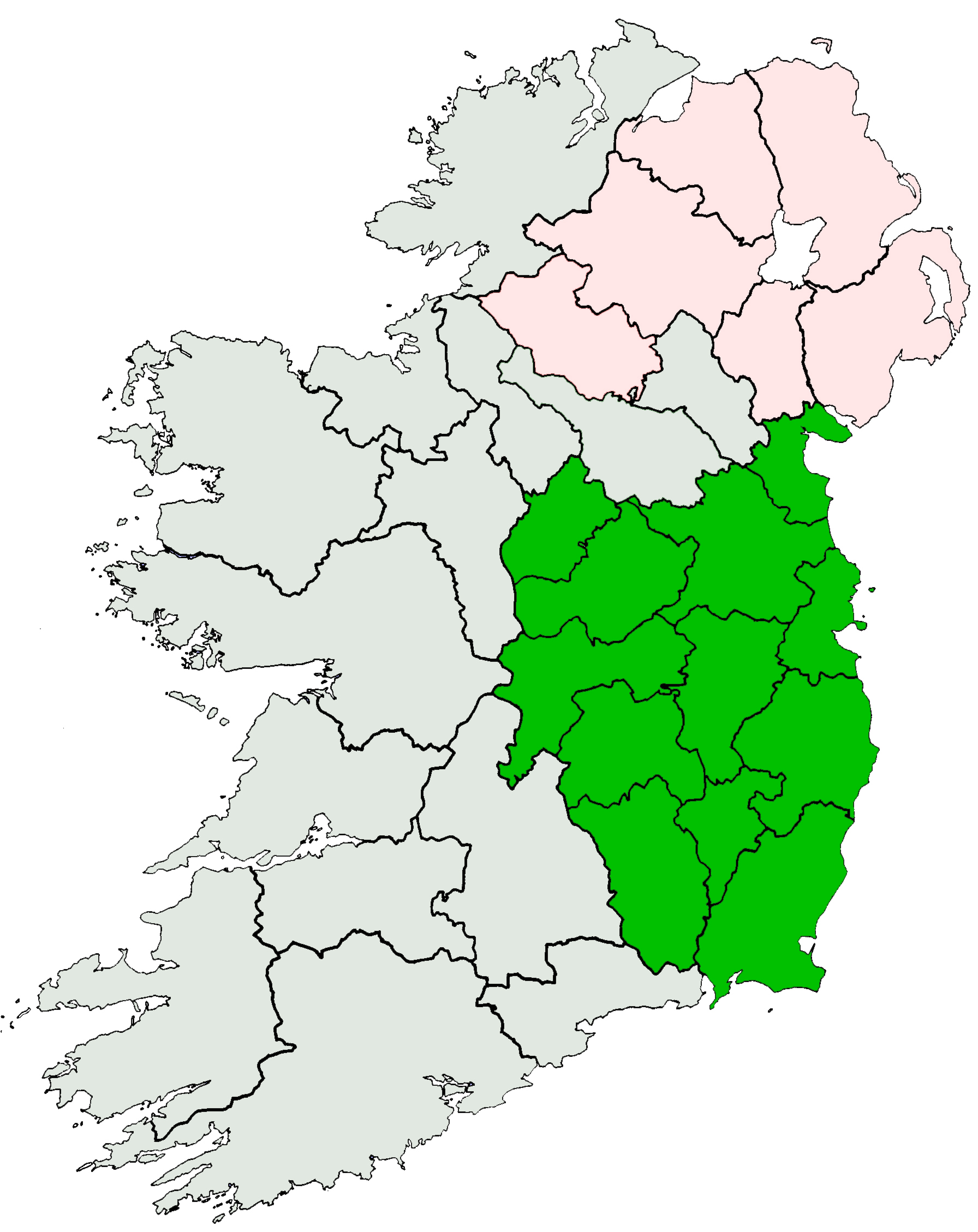 Leinster highlighted on an outline map of Ireland.